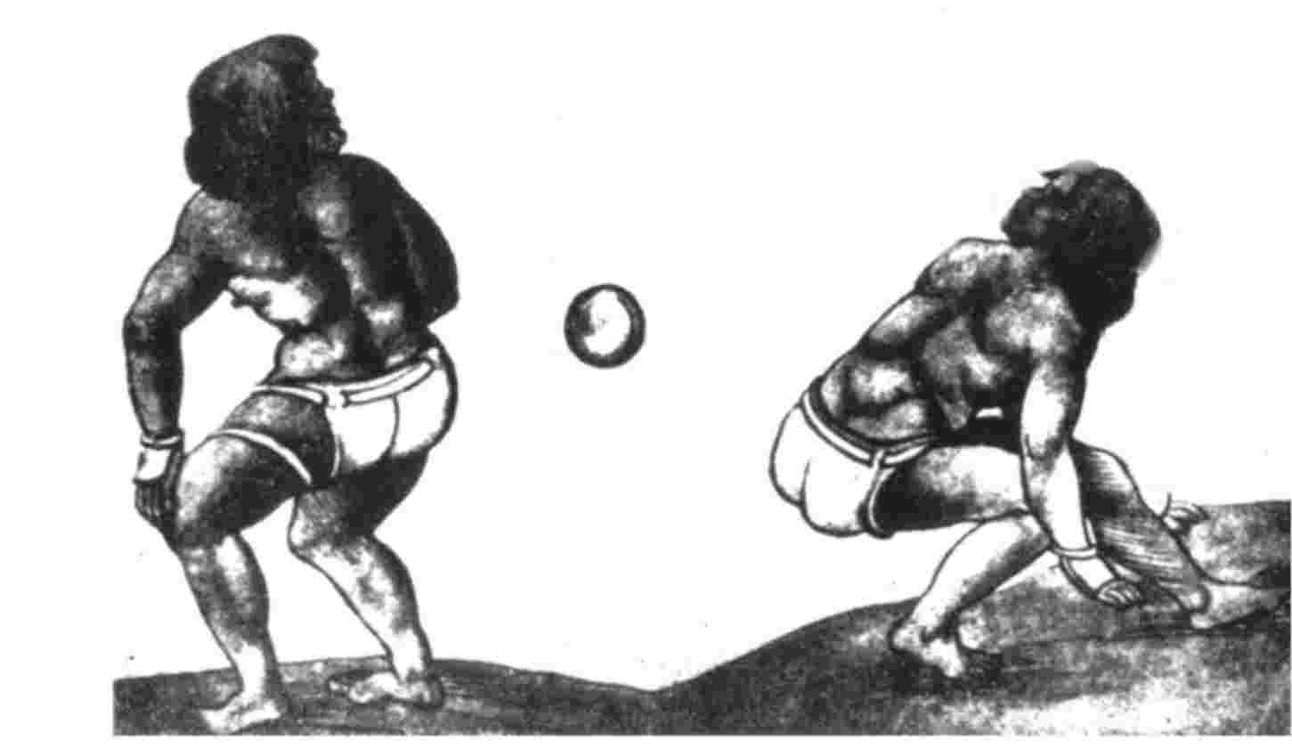 Drawing of Aztec ballplyers performing for Charles V in Madrid in 1528 drawn by Christoph Weiditz. "Trachtenbuch" des Christoph Weiditz, Germanisches Nationalmuseum Nürnberg, Hs. 22474. Bl. 10–11 Indianer beim Ballspiel